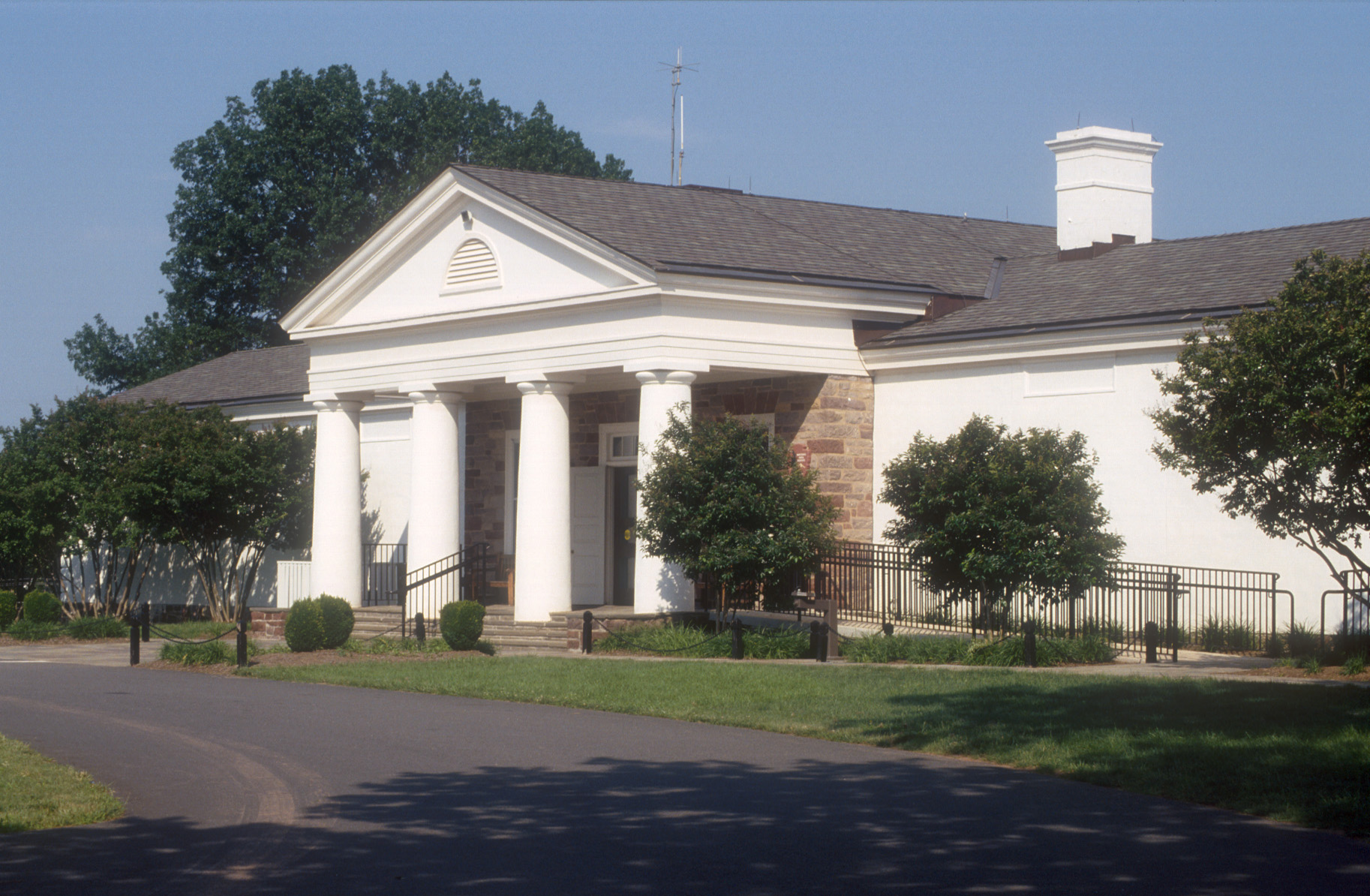 The Henry Hill Visitor Center at Manassas National Battlefield Park.